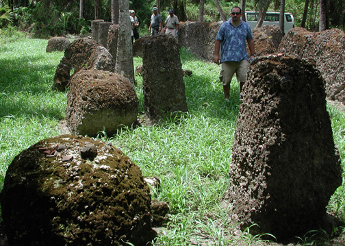 Mochon (or Mochong) archaeological site, Rota, Northern Mariana Islands.